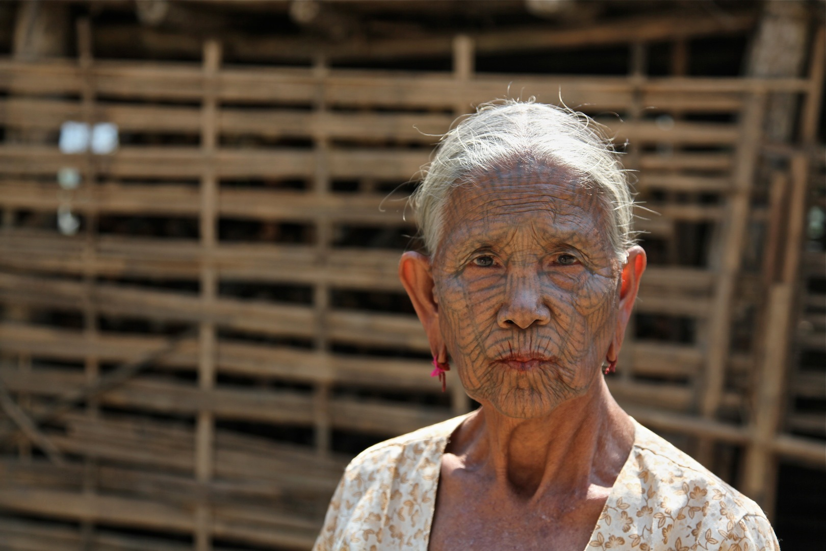 Elderly Chin woman in the Lemro river area